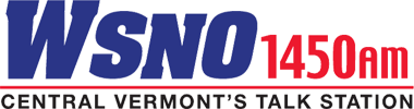 This is a logo for WSNO.